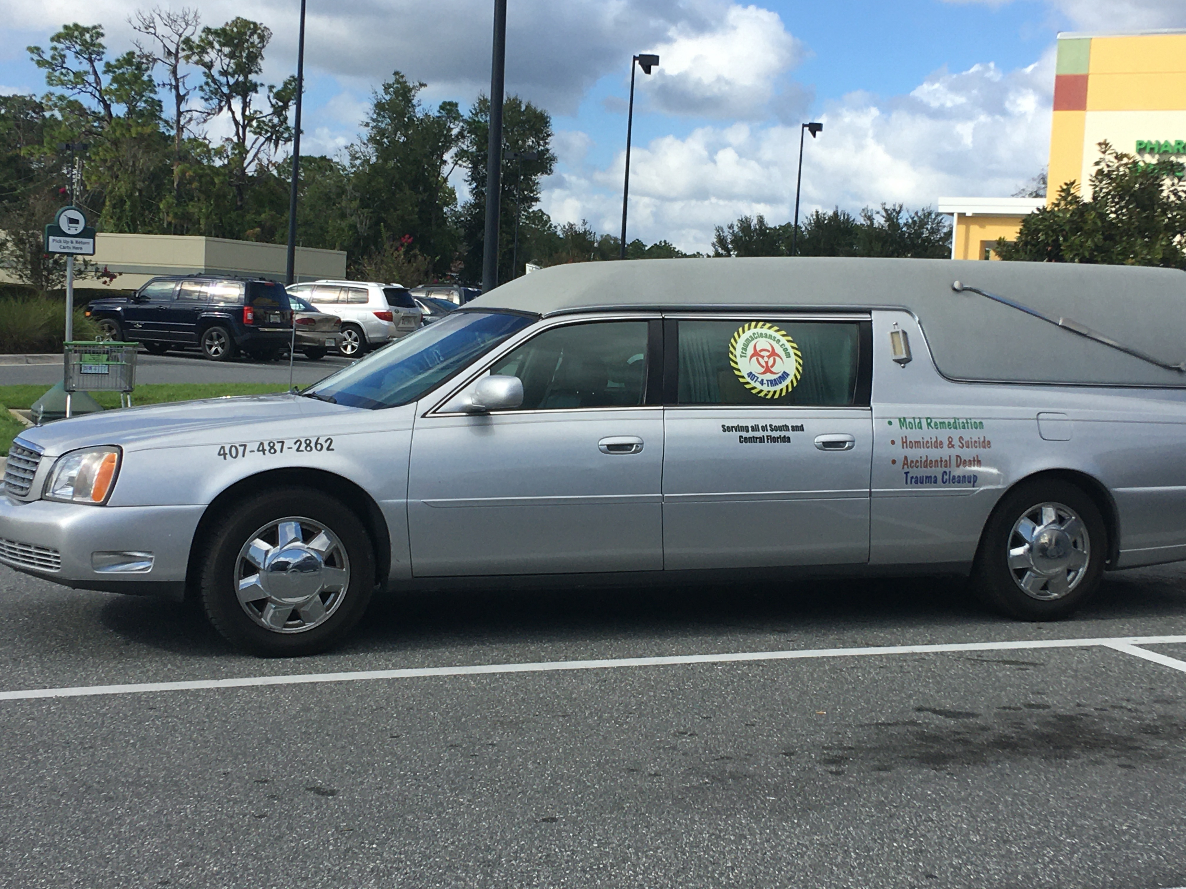 traumacleanse company vehicle parked at a multi-shop plaza in Florida during the COVID-19 pandemic